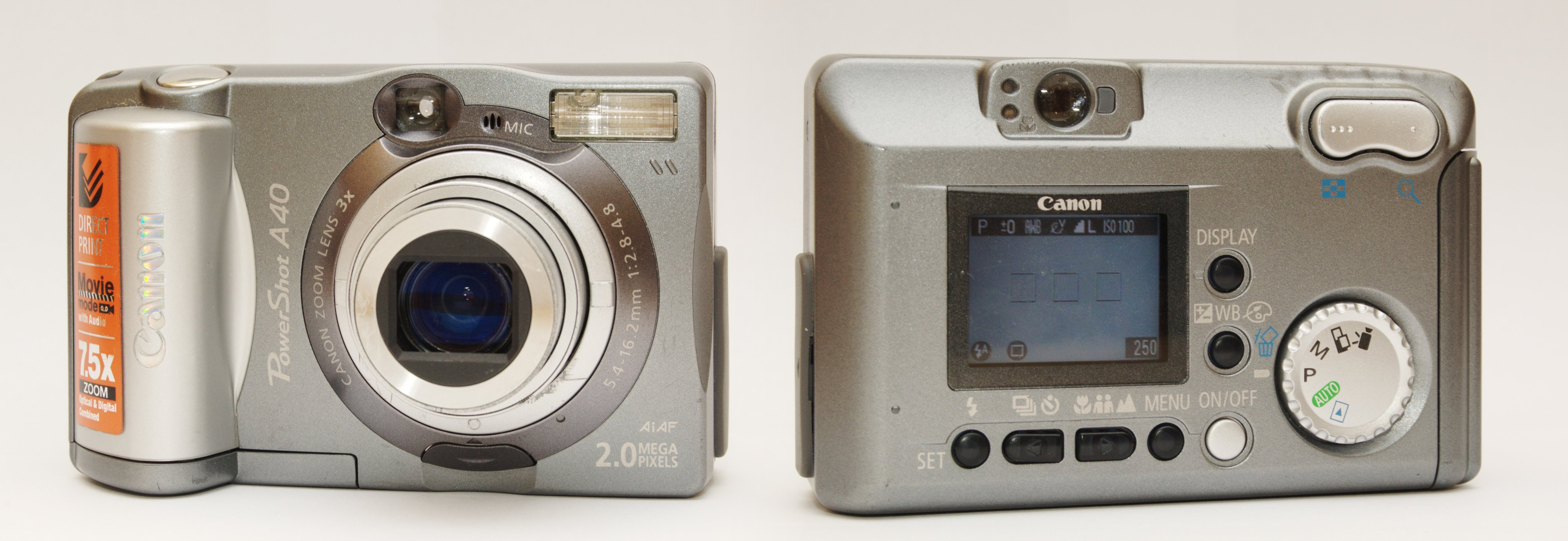 Front and Rear view of the Canon powershot A40